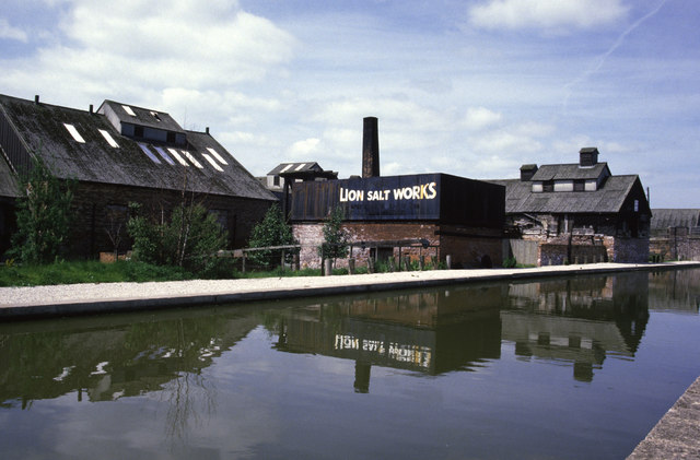 Lion Salt Works This was the year that the site closed as a traditional open-pan salt works. It is now a lot more ramshackle although there are serious efforts being made to save the site, including a lottery grant.